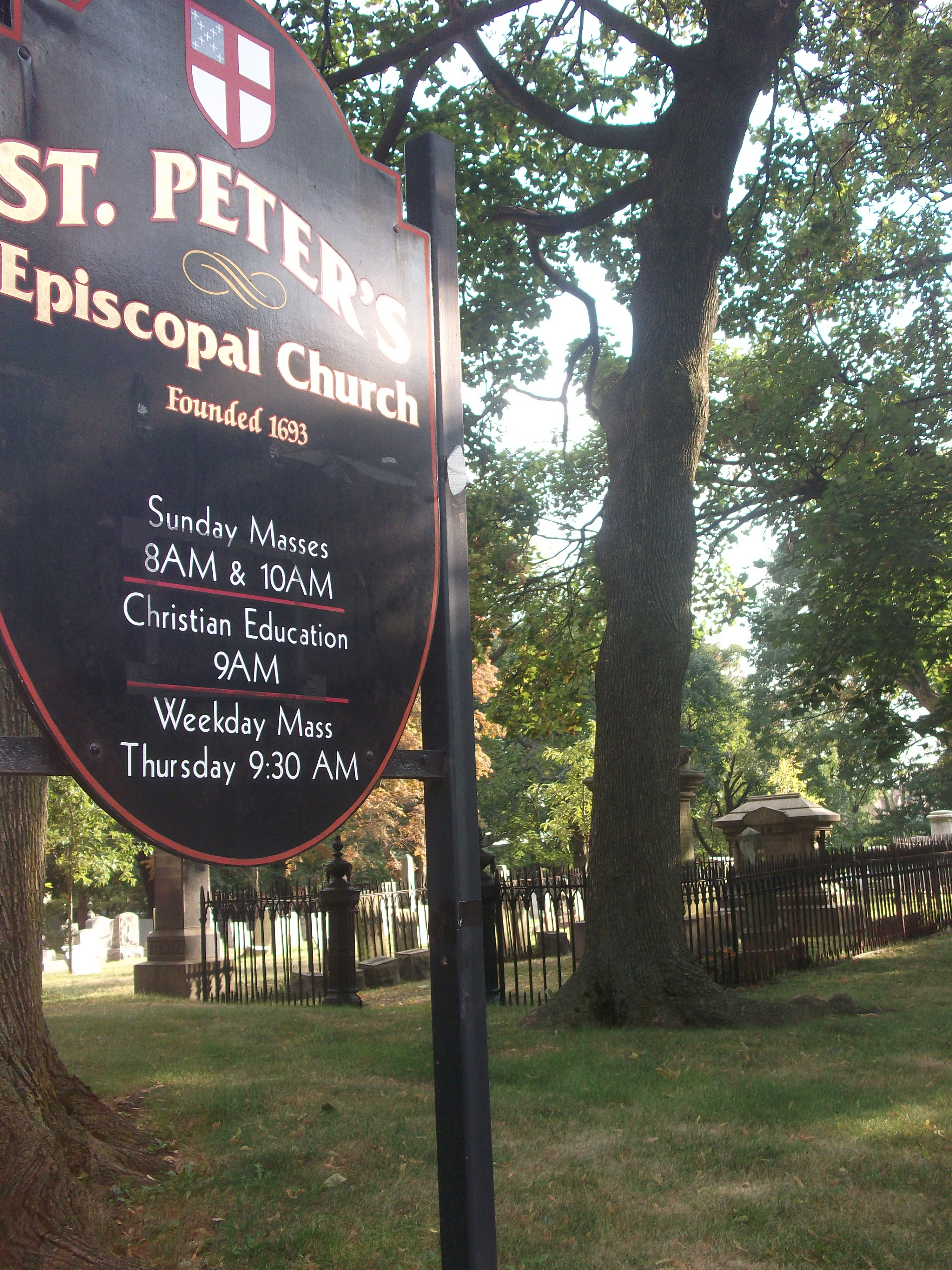 St. Peter